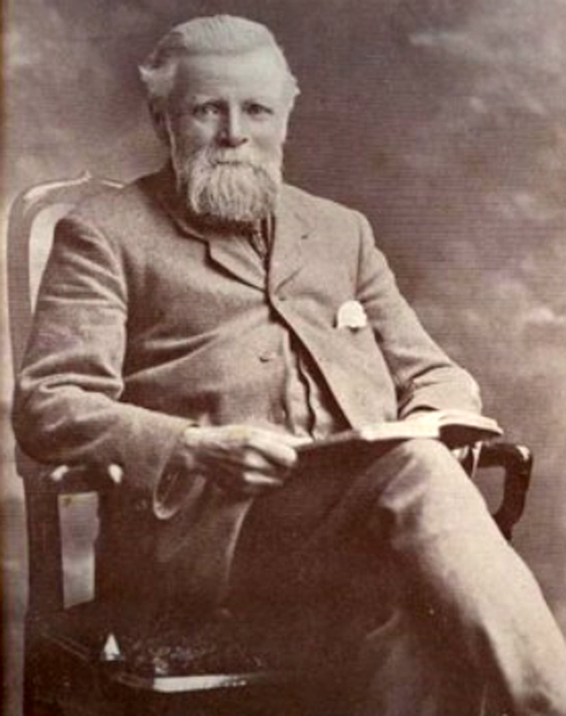 John Naylor owner of Beeston Towers, Cheshire, 1916